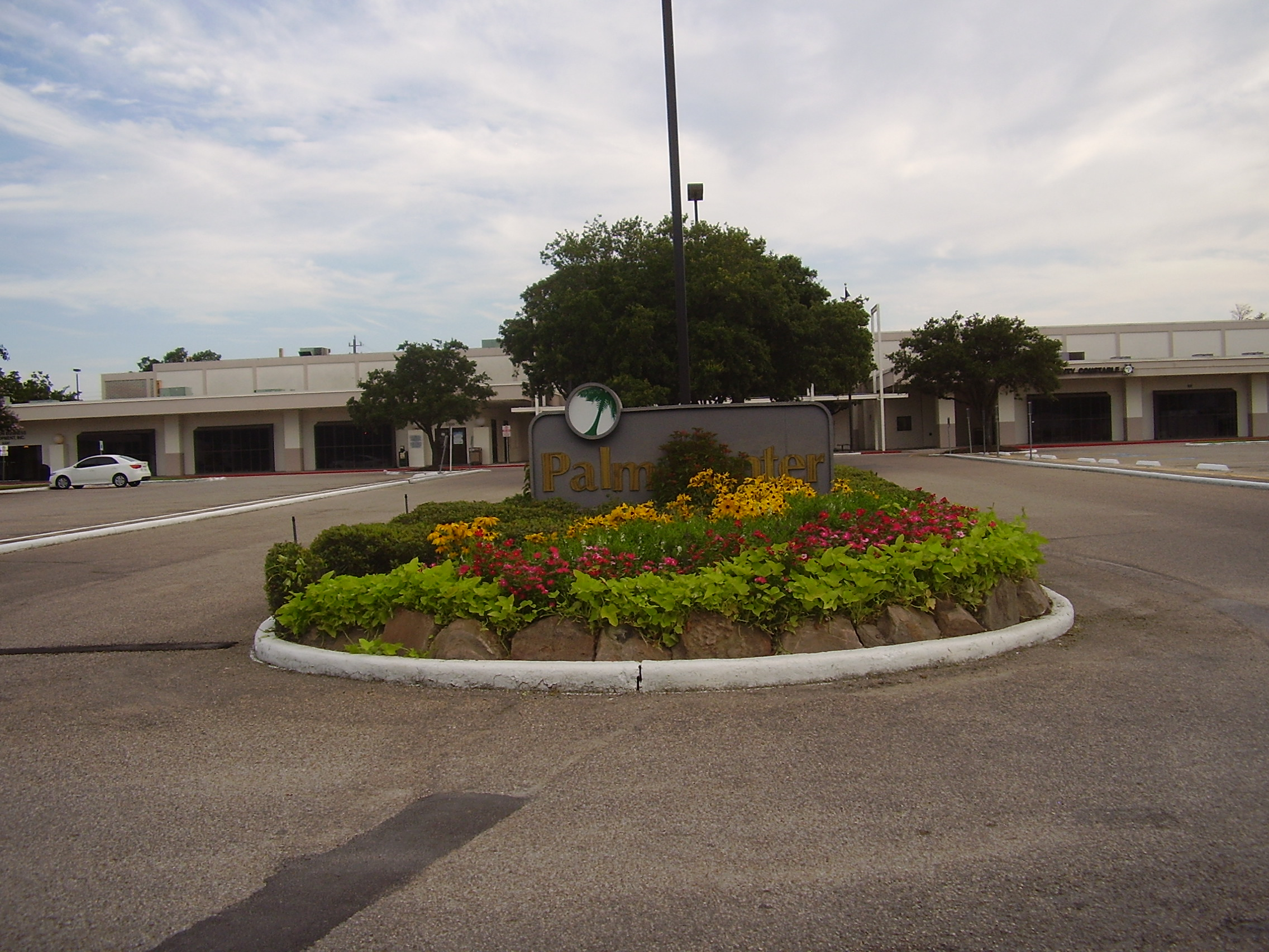 Palm Center entrance sign